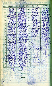 Scan der Originalnotation Menchik-Graf, Buenos Aires 1939 Runde 12